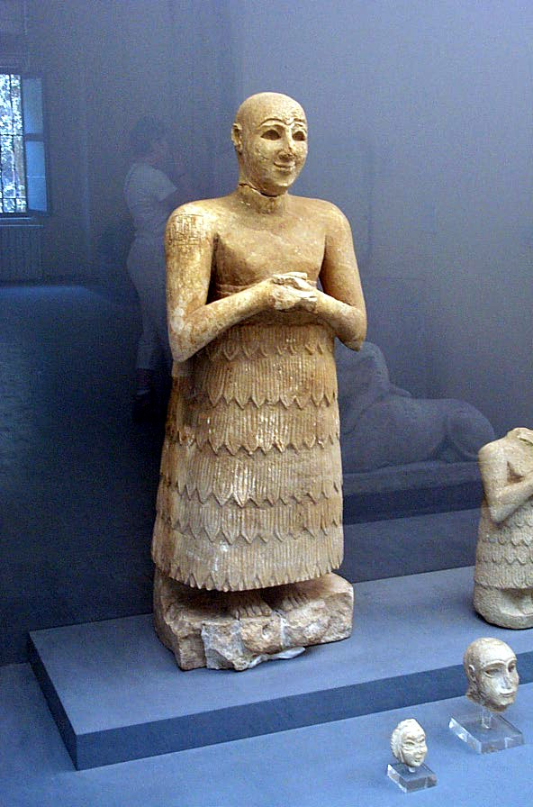 Istanbul Archaeological Museum - Oriental pavilion. Pieces.